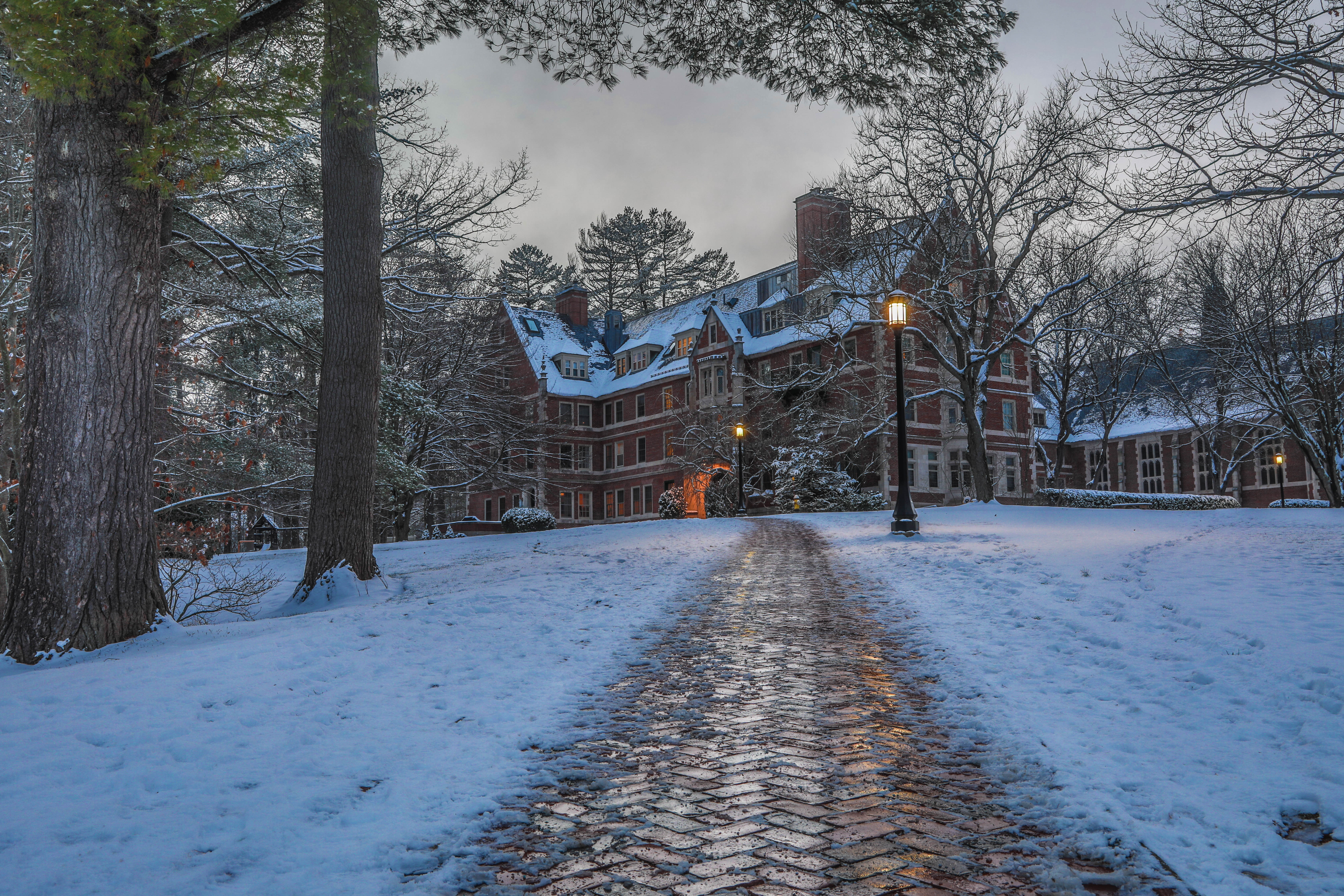 St. Paul's School, Concord, United States